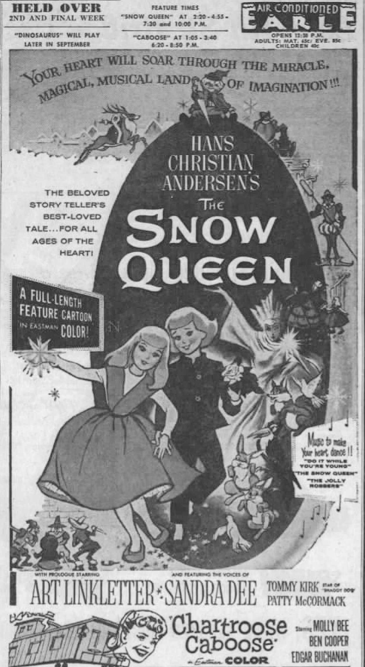 Earle Theater, American advertisement for its edited version of the Soviet Union film Snezhnaya koroleva issued under the English title The Snow Queen (1957), and the American comedy film Chartroose Caboose (1960) - 24 Aug. 1960 Morning Call, Allentown PA